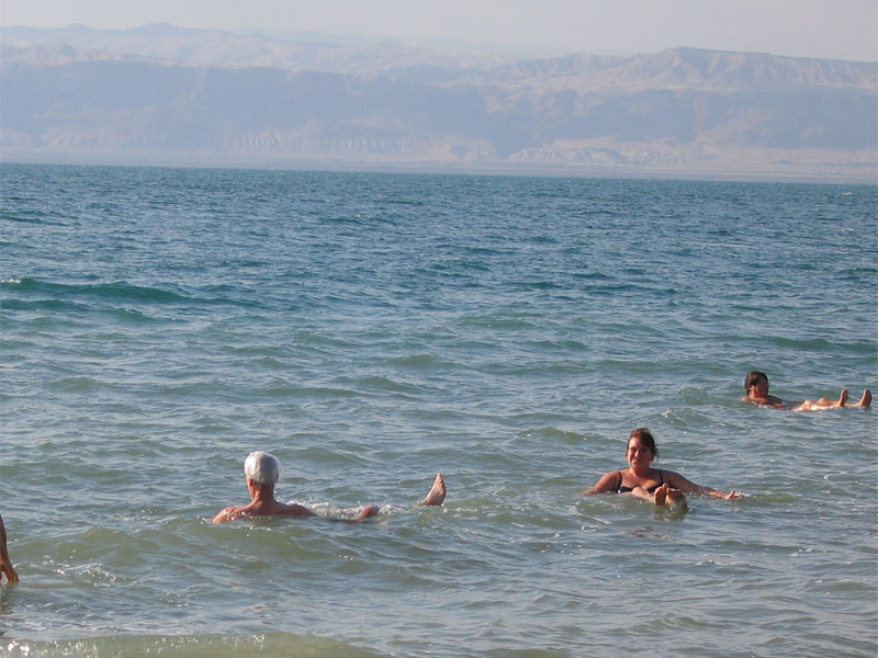 Dead Sea from Jordan area